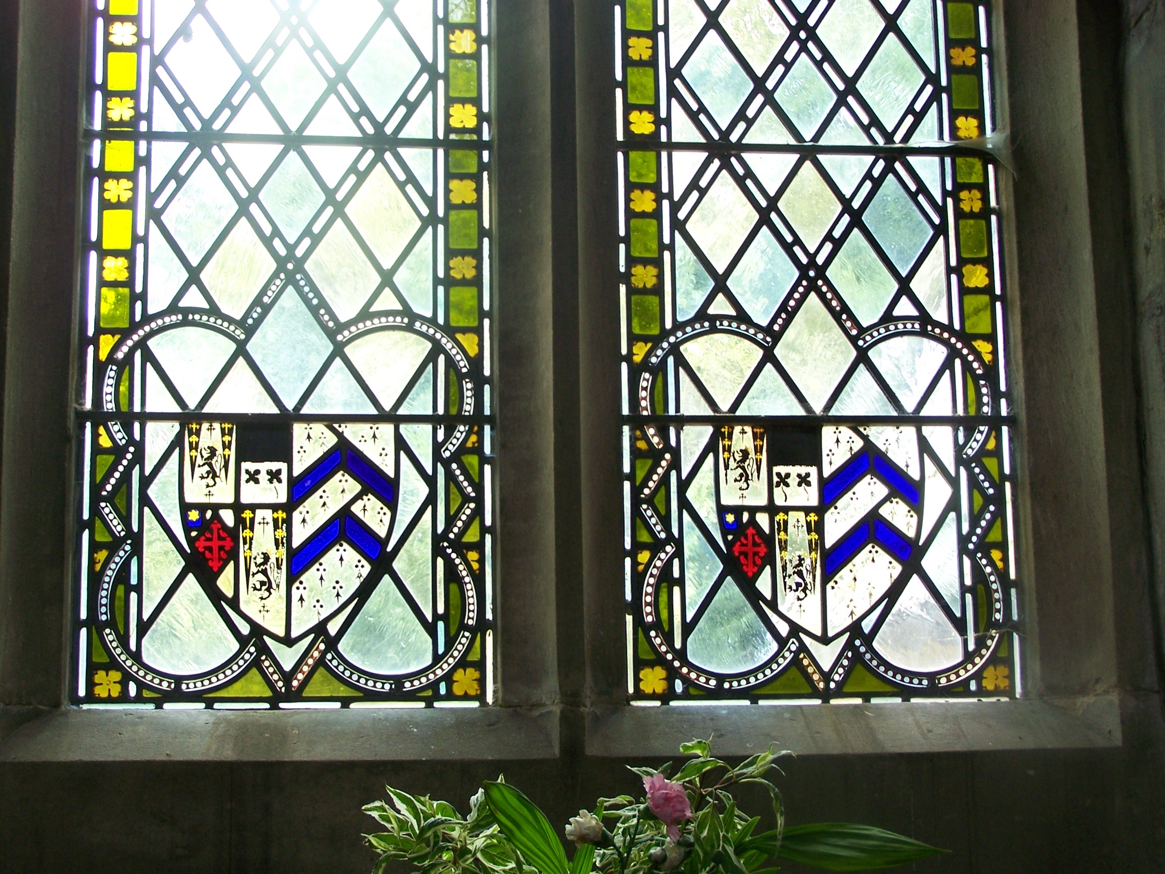 Arms of Levett impaling Bagot, Church of St Leonard, Blithfield, Staffordshire. Stained glass created by Goddard & Gibbs, 1965. Reverend Walter Bagot of Pype Hayes Hall (1731-1806) married Anne Swinnerton. Their daughter Louisa-Frances Bagot married Reverend Richard Levett of Milford Hall, Staffordshire.